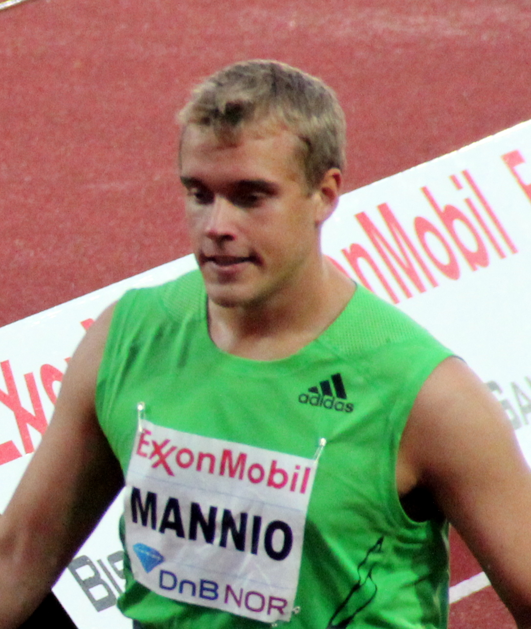 Ari Mannio at the 2011 Bislett Games